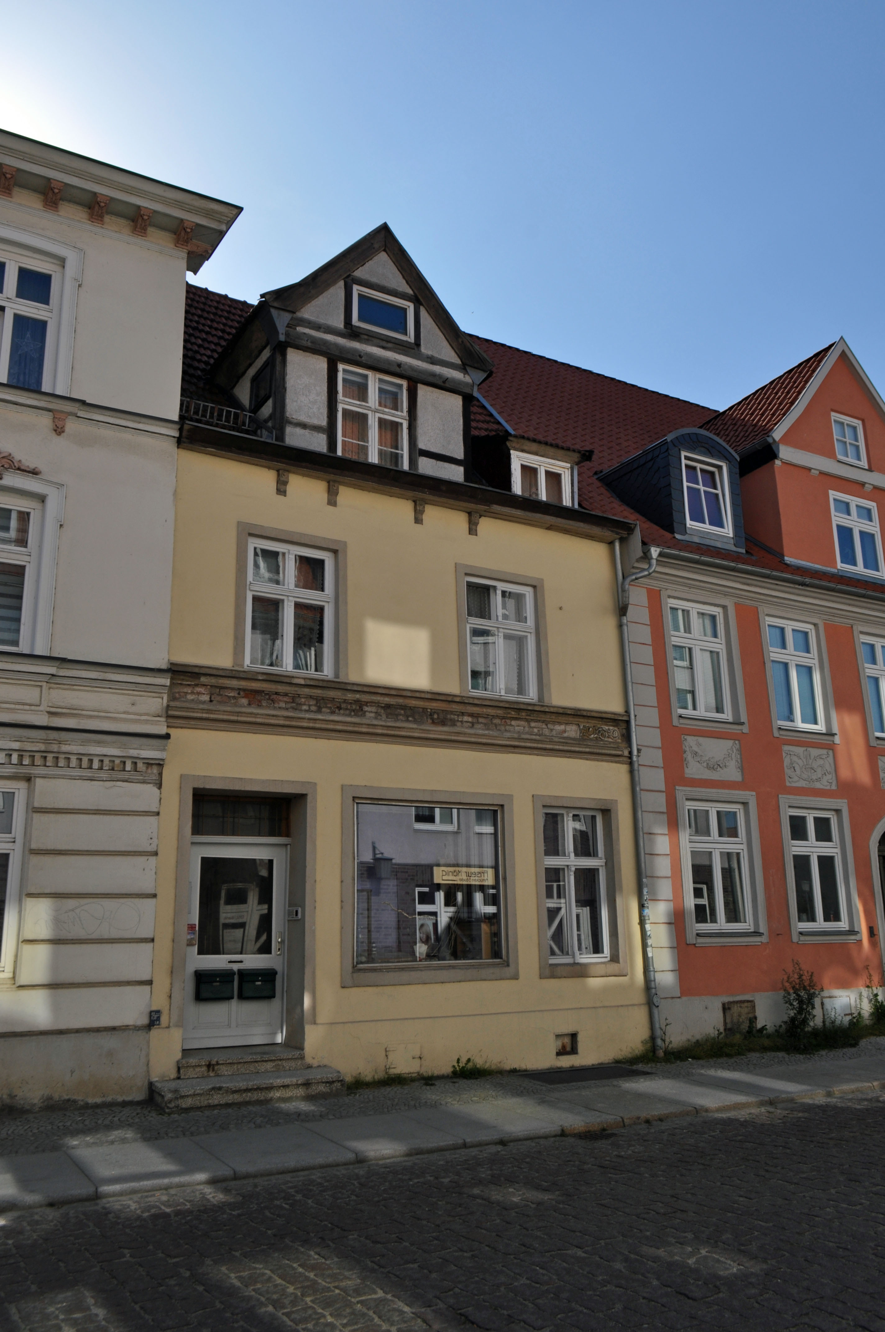 Stralsund, Wasserstraße 34 This is a photograph of an architectural monument.